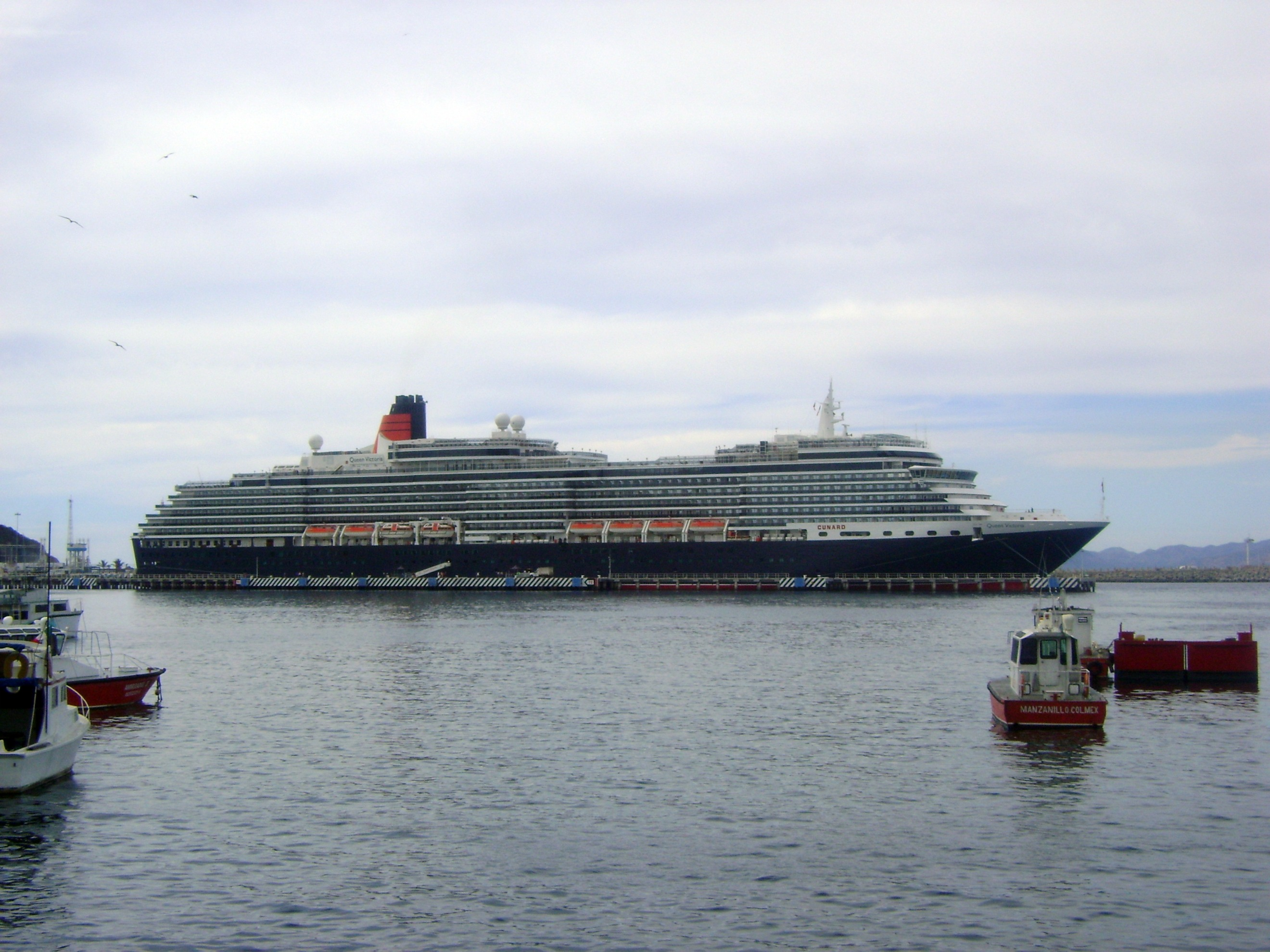 MS Queen Victoria in Manzanillo, Colima, Mexico. January 27, 2011